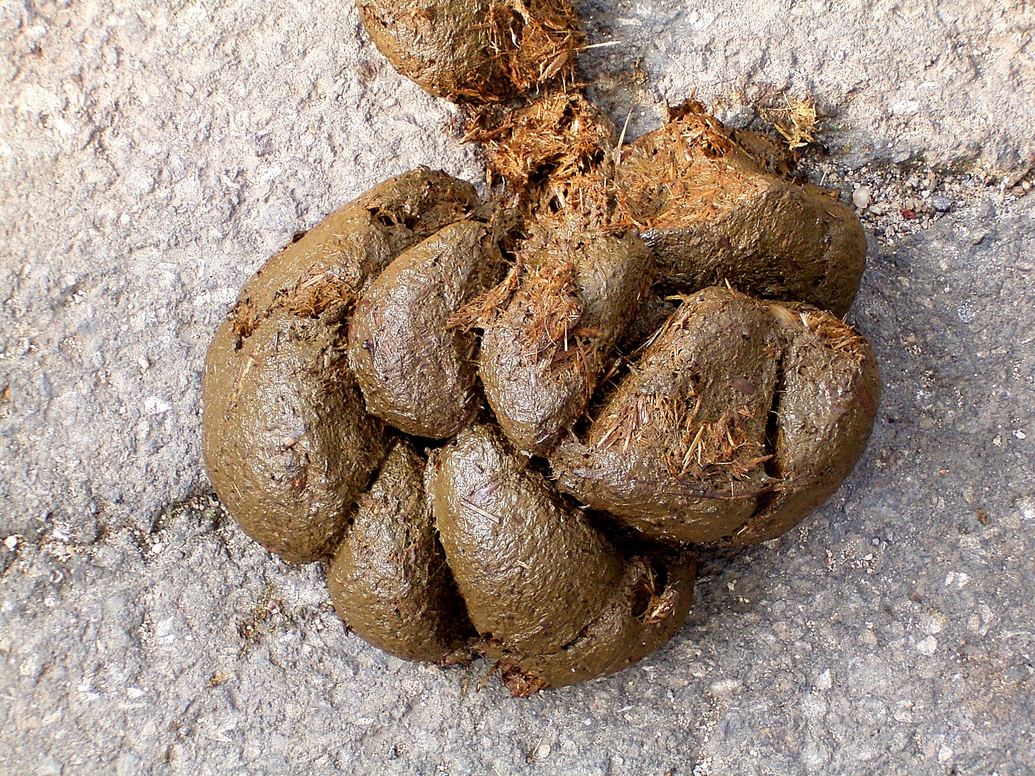 Horse feces